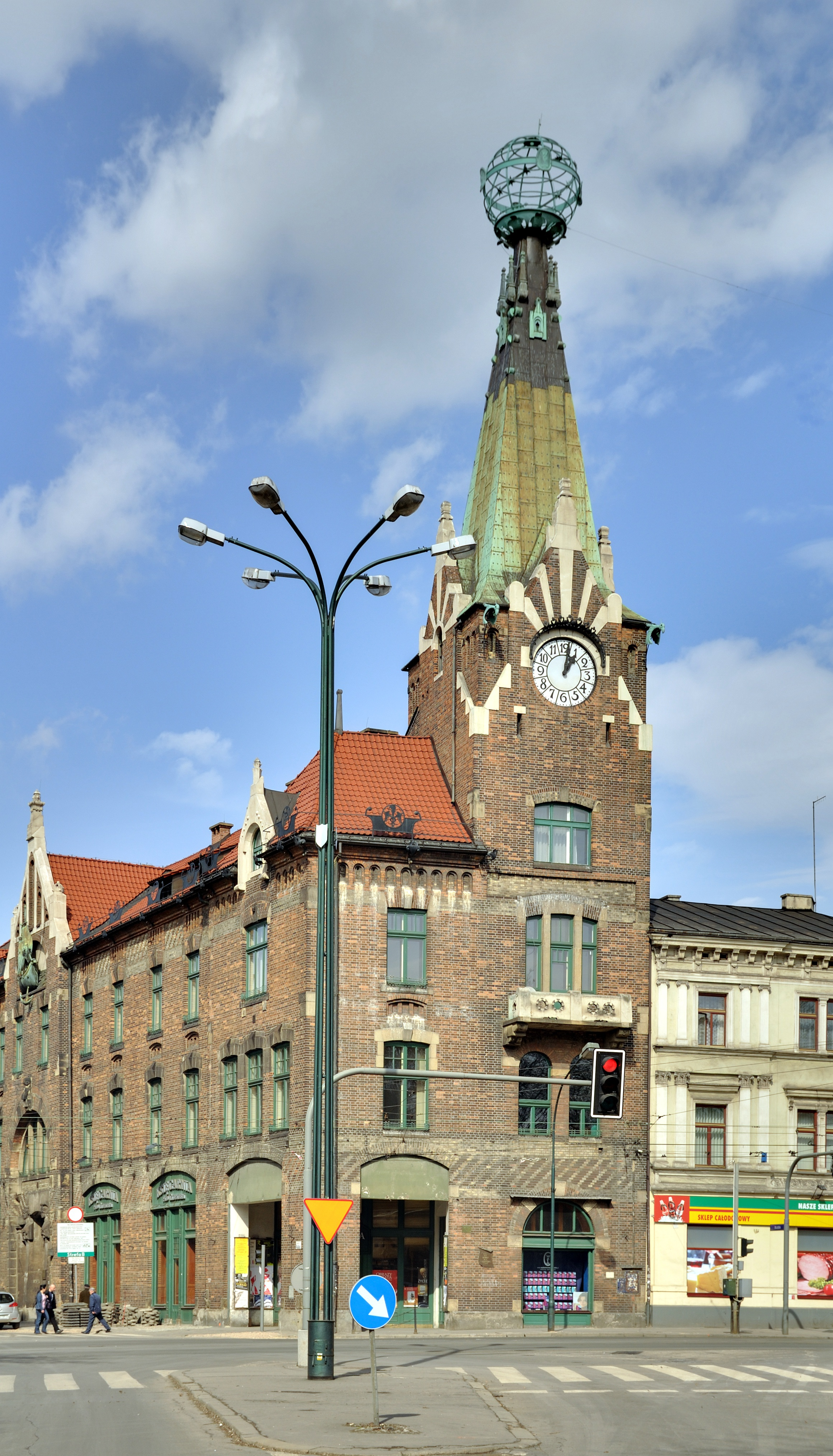 Kraków: House under the globe, Art Nouveau style (build 1904–1906).